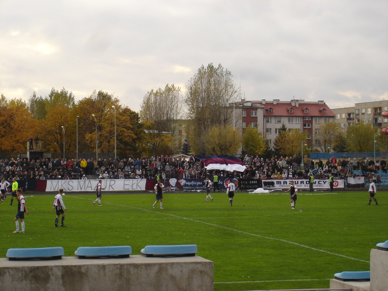 Mazury Elk - Polish football club